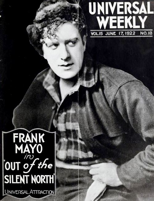 Still for the American film Out of the Silent North (1922) with Frank Mayo, on the cover of the June 17, 1922 Universal Weekly.